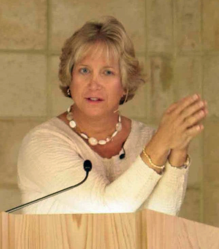 Susan Stanton, formerly Steven Stanton, former city manager of Largo, Florida